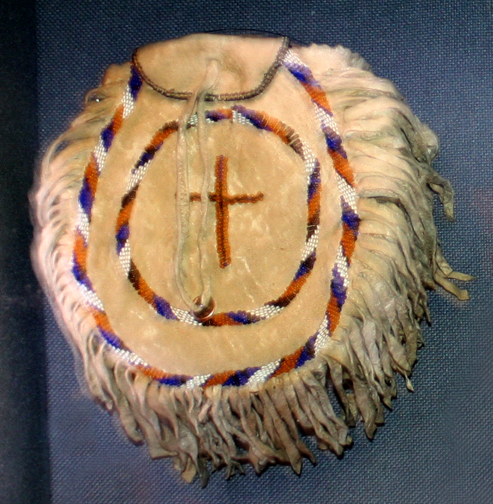 Apache beaded bag, turn-of-the-century, Oklahoma, collection of the Oklahoma History Center